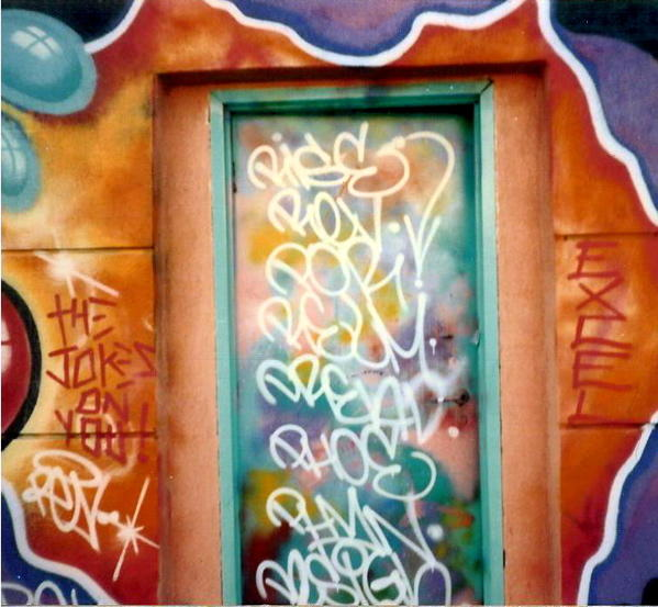 A graffiti painted by Kings Stop at Nothing graffiti crew.